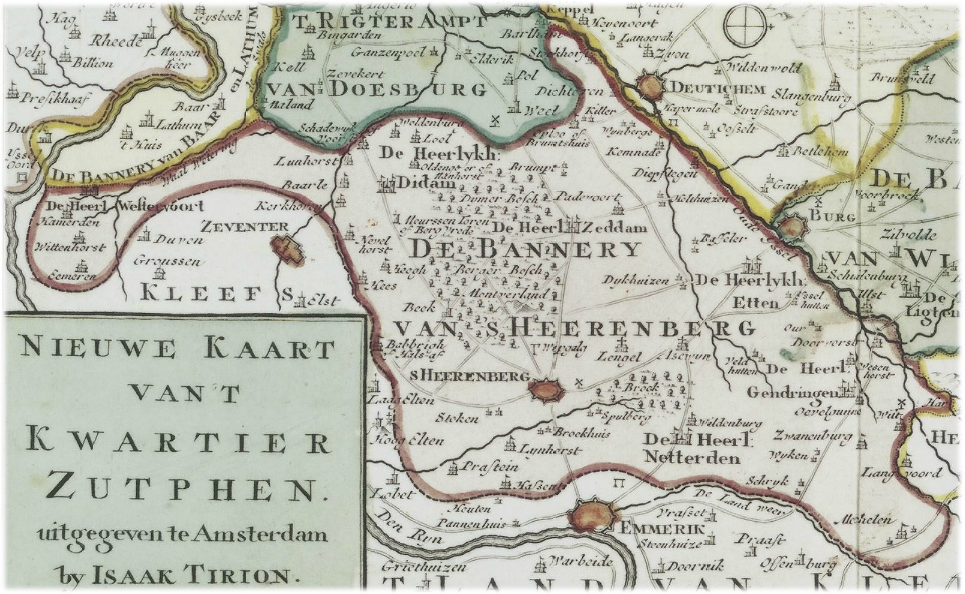 Fief 's Heerenbergh (Netherlands): part of bigger map: Nieuwe kaart van’t kwartier Zutphen